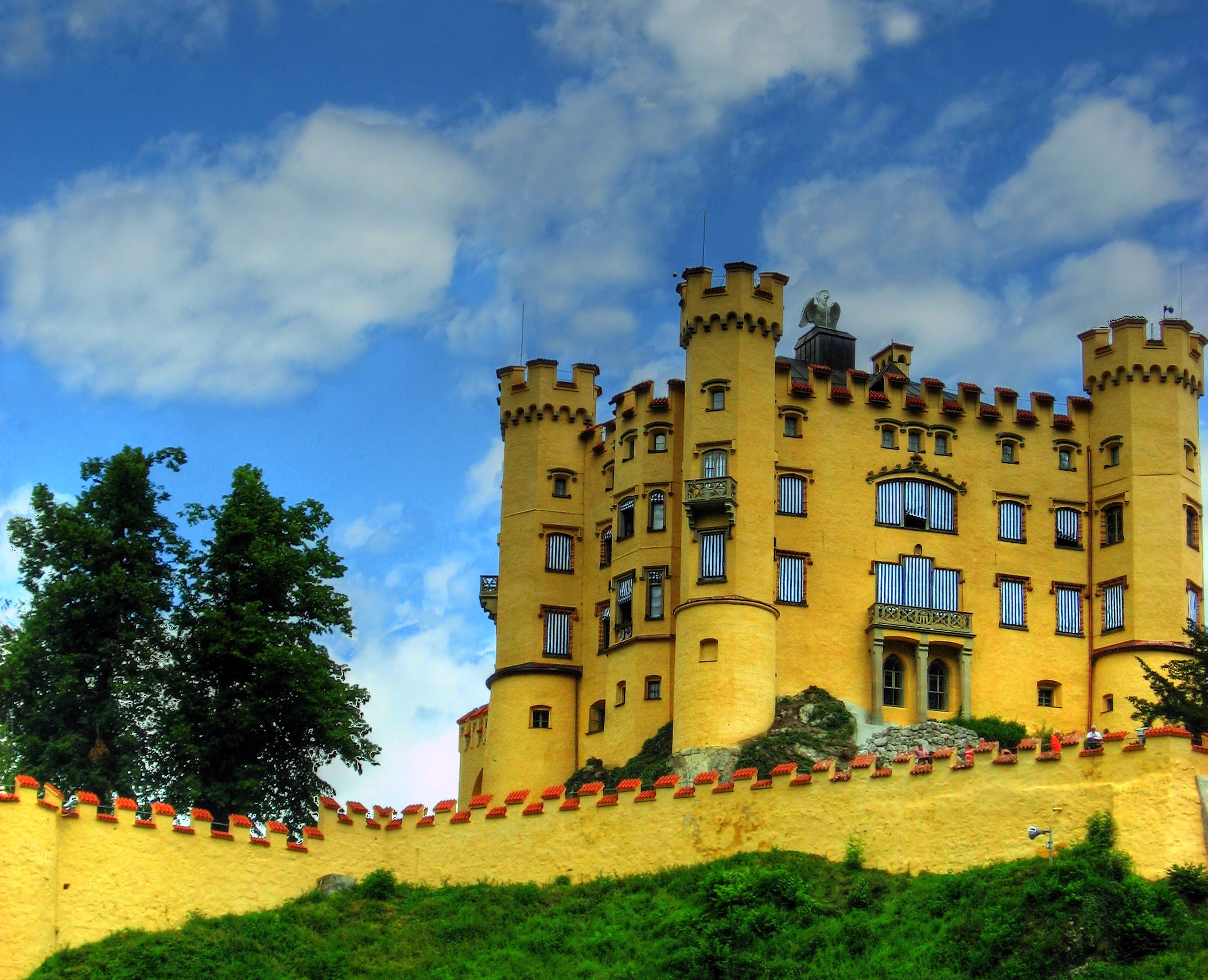 Hohenschwangau Castle.